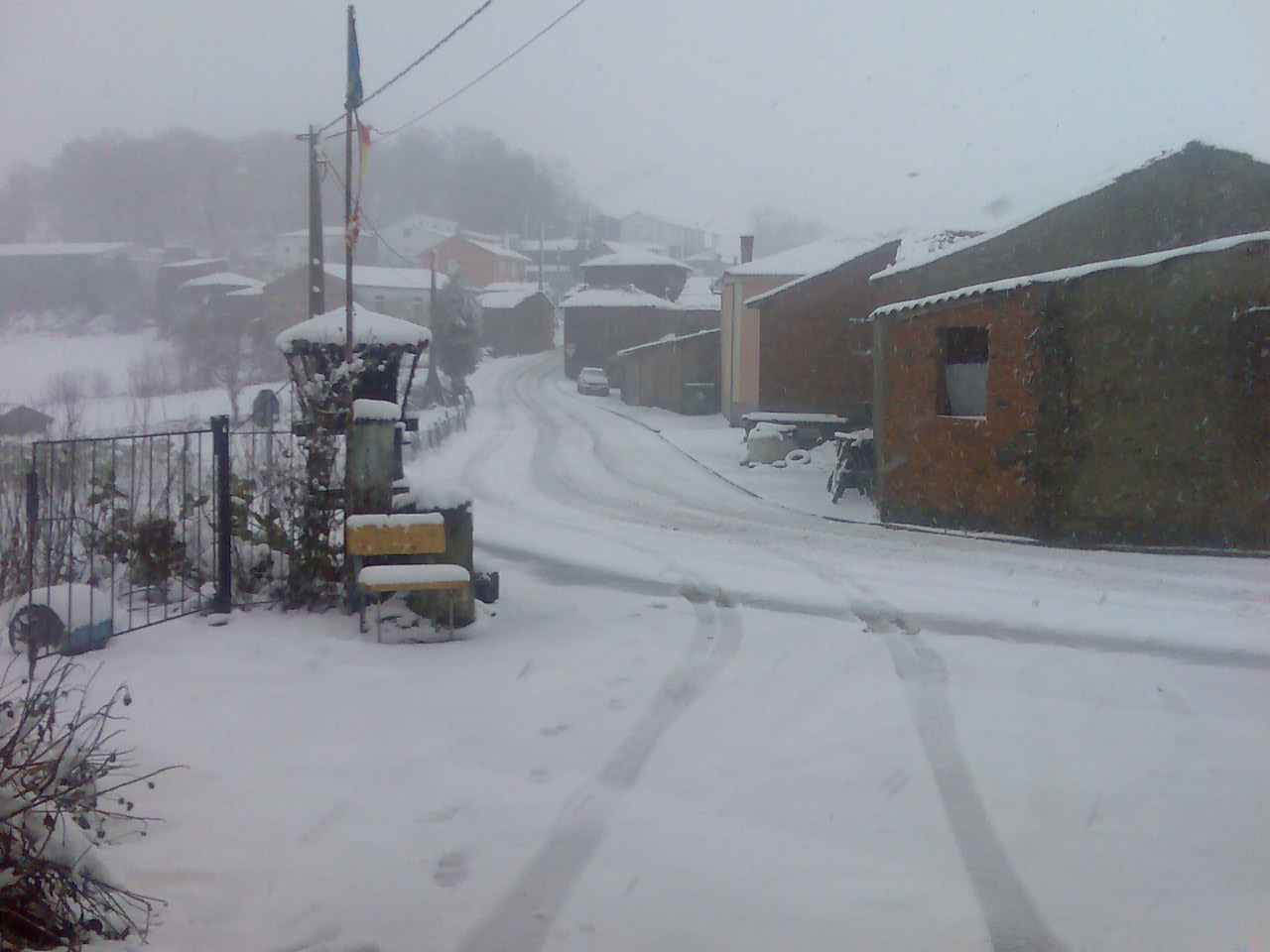 FAstias nevado